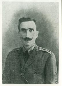 Greek officer Neokosmos Grigoriadis, circa 1922-26 (shown with the rank of Colonel)